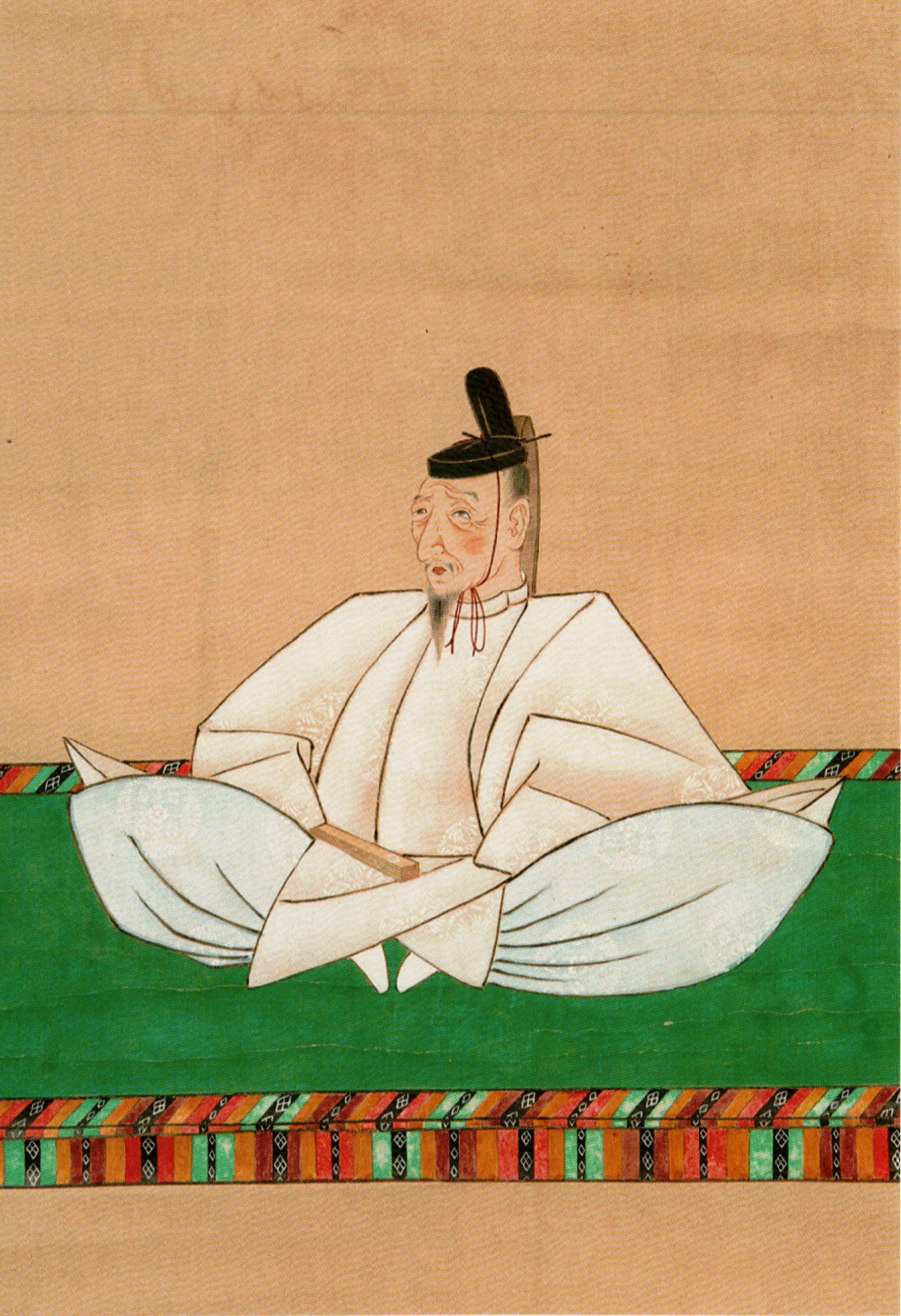 Yoshimoto Nijō (1320–1388)